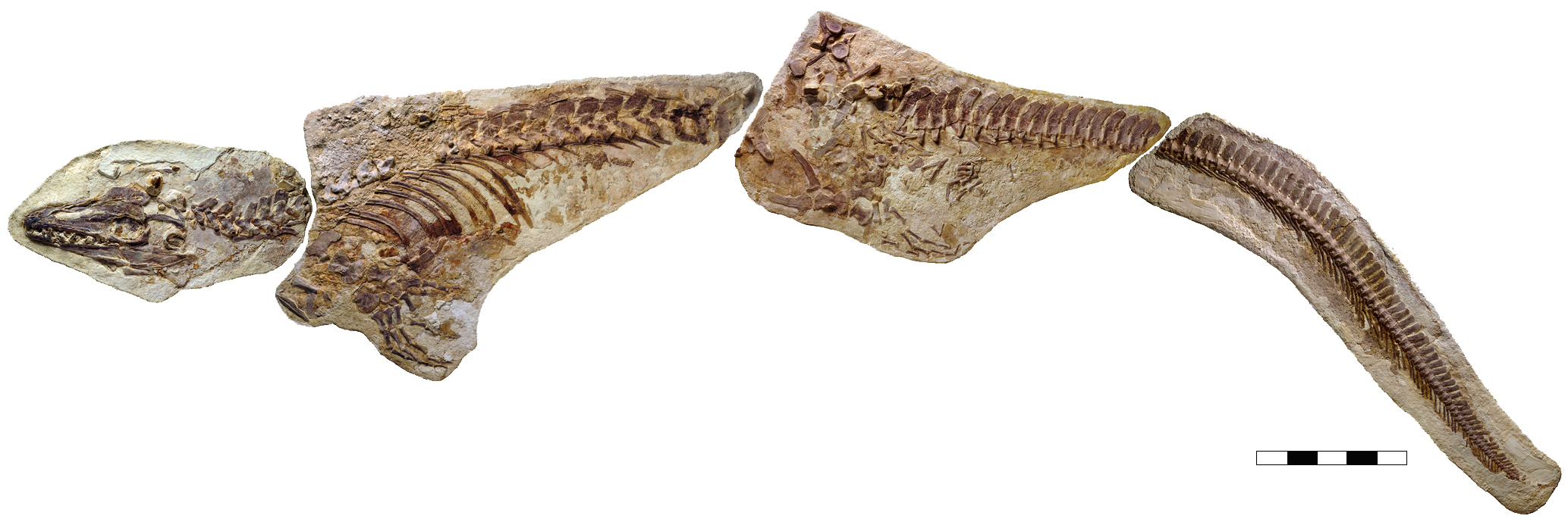 Platecarpus tympaniticus, LACM 128319, upper Santonian–lowermost Campanian, Kansas, USA. Specimen photographed under normal light. Scale bar equals 0.5 m.